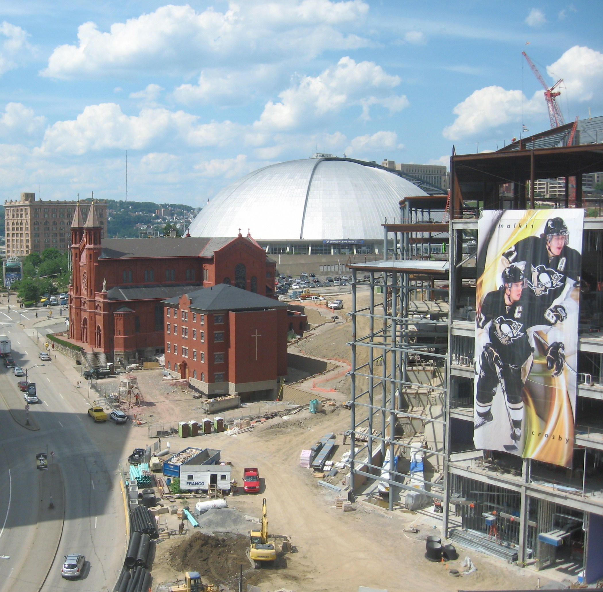 Construction on the Consol Energy Center in June 15, 200940°26′26.8″N 79°59′22.8″W / 40.440778°N 79.989667°W